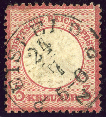 Stamp of Germany, large shield 3 kreuzer, issue 1872, Mi25, cancelled EISFELD (Sachsen-Meiningen), Thuringia.